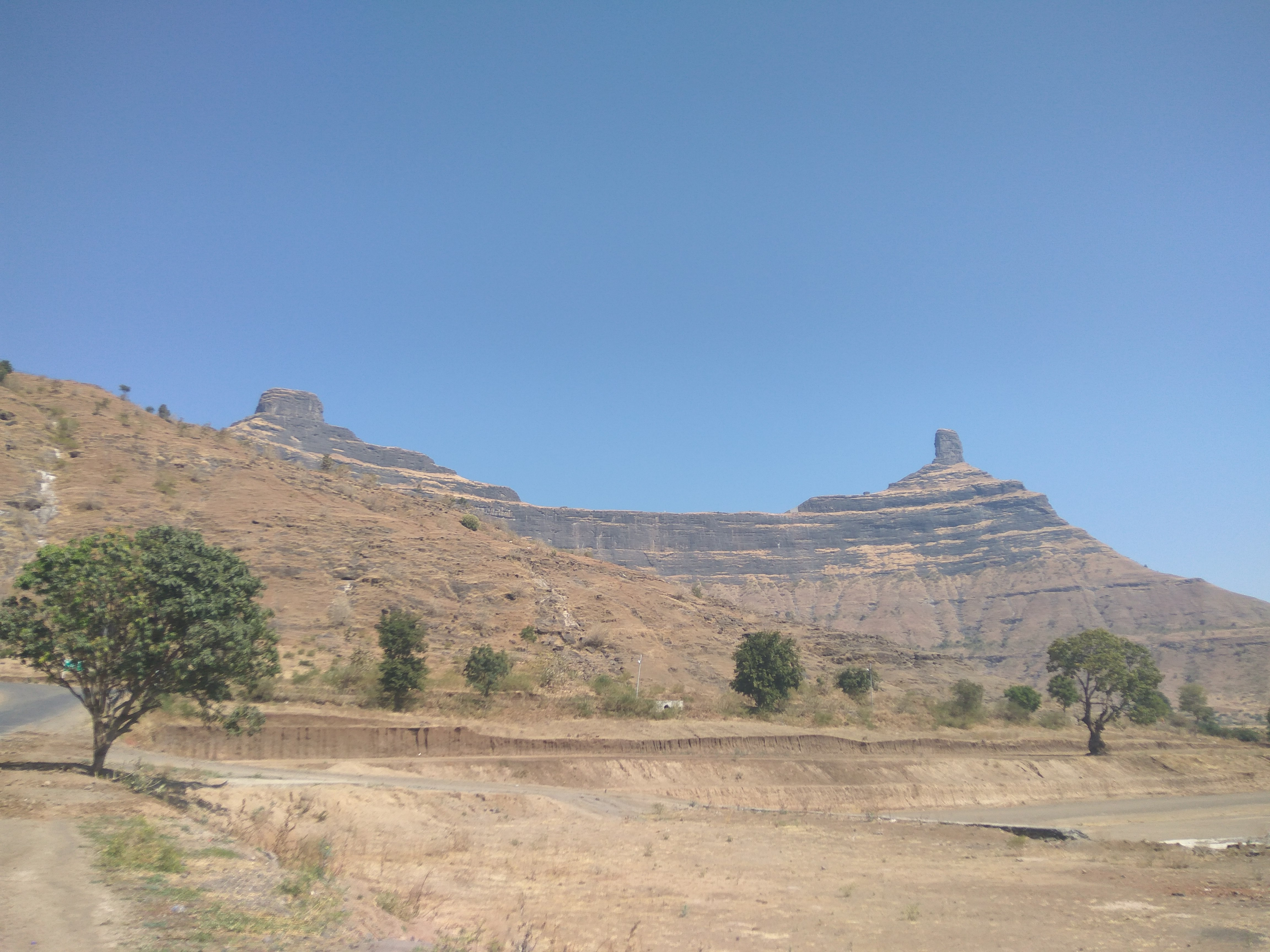 The statue of Ahinsa is located on the hilltop of this Mangi tungi Hill